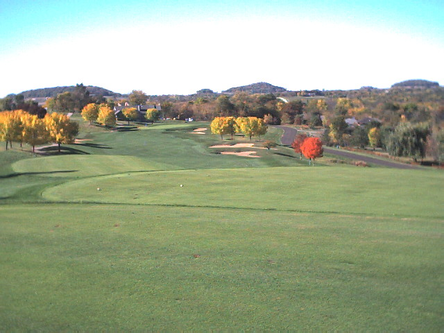 Eagle Ridge Resort & Spa's East Golf Crouse, in Galena, Illinois, United States. Hole 7 from the tee box.